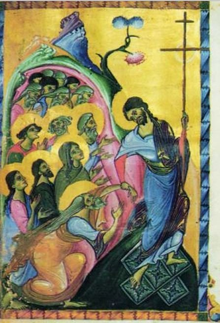 miniature of Hovhannes Arkaeghbayr, 1287 y.